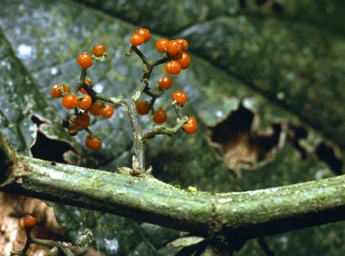 Urera caracasana berries